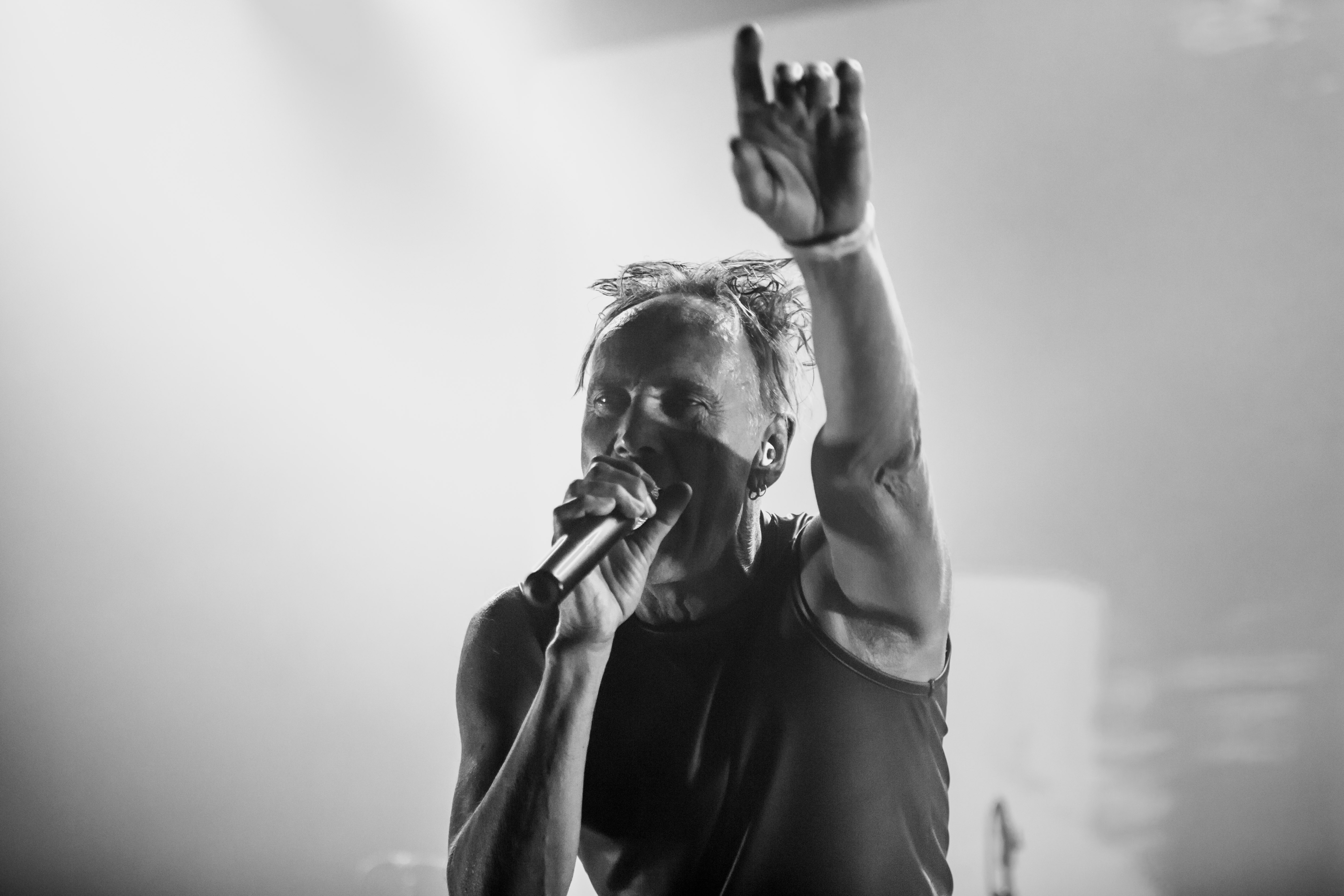 Frontline Assembly, E-Tropolis Festival 2016, Oberhausen Turbinenhalle Festivalsommer This photo was created with the support of donations to Wikimedia Deutschland in the context of the CPB project "Festival Summer".